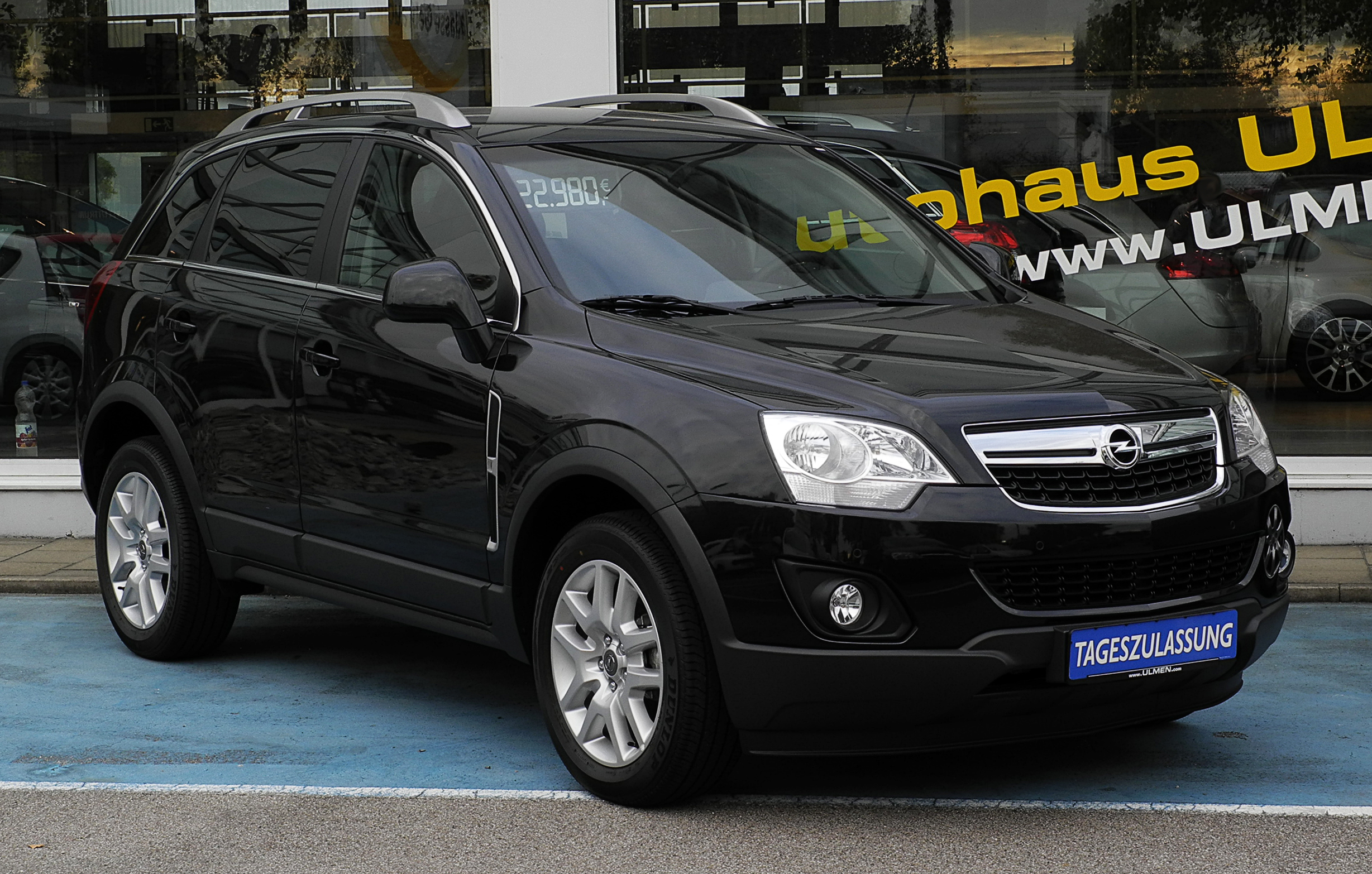 Opel Antara 2.4 4x4 Design Edition (Facelift)